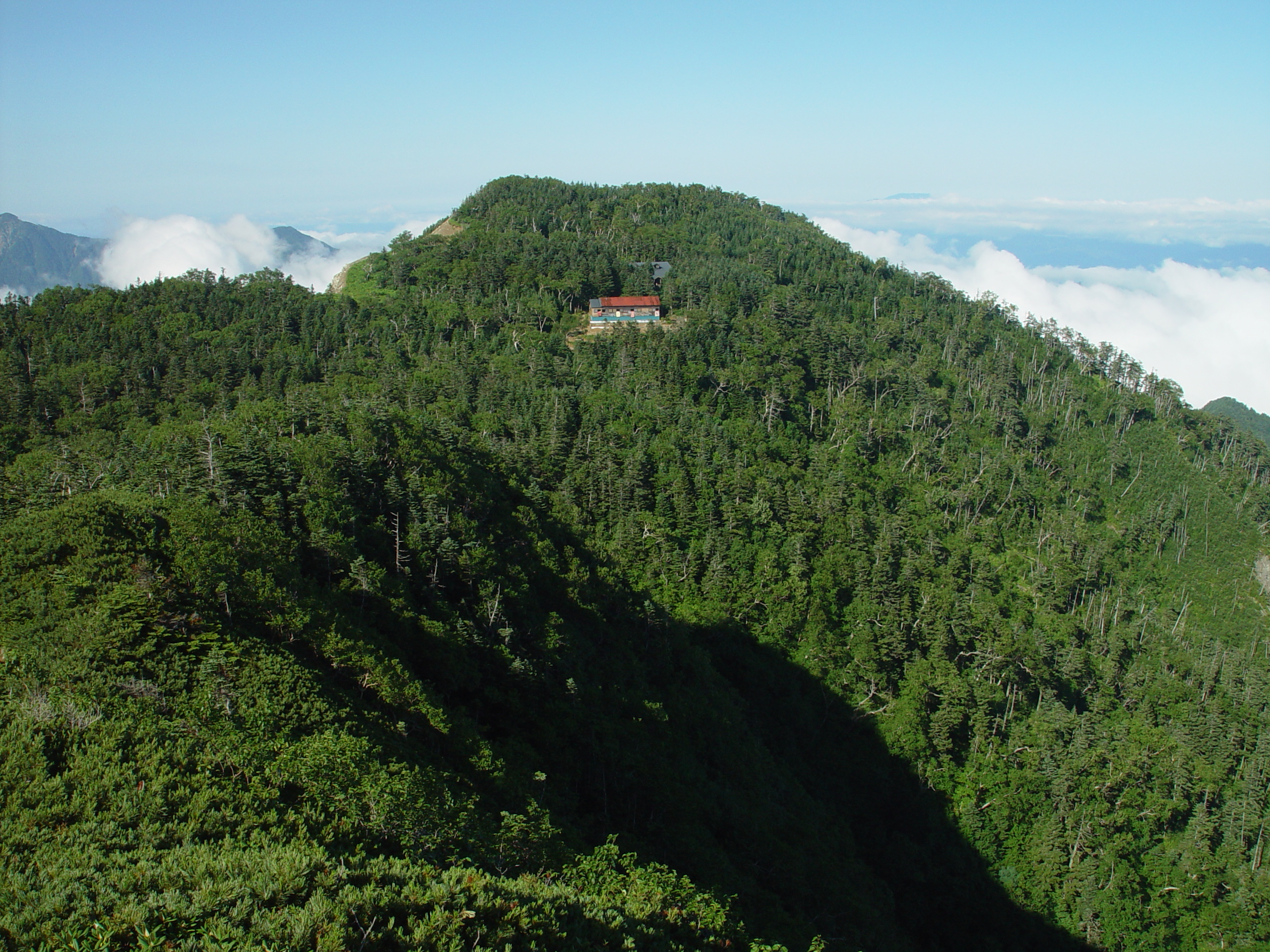 Sanpukutogegoya seen from Mount Sanpuku, in Akaishi Mountains, Oshika, Nagano prefecture, Japan.